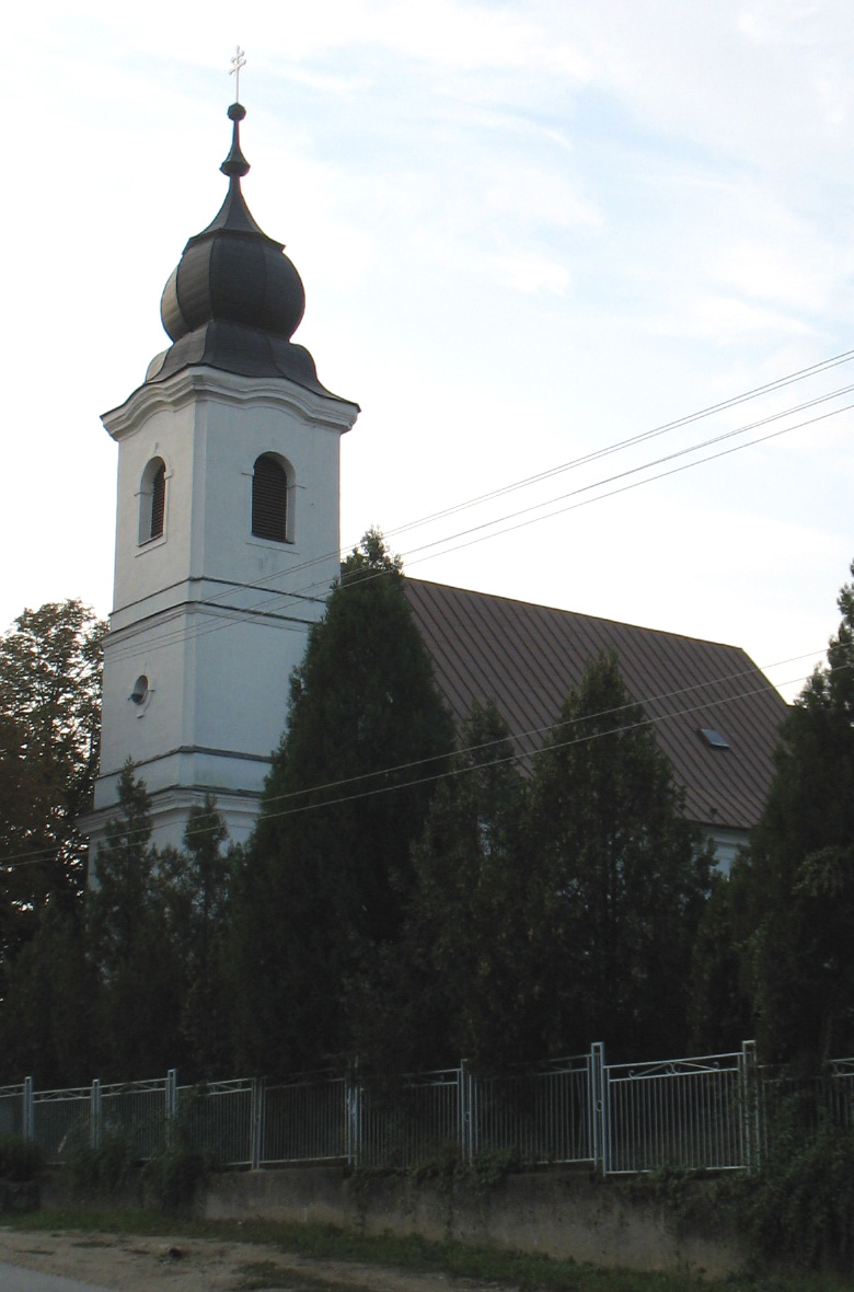 church in Cabaj